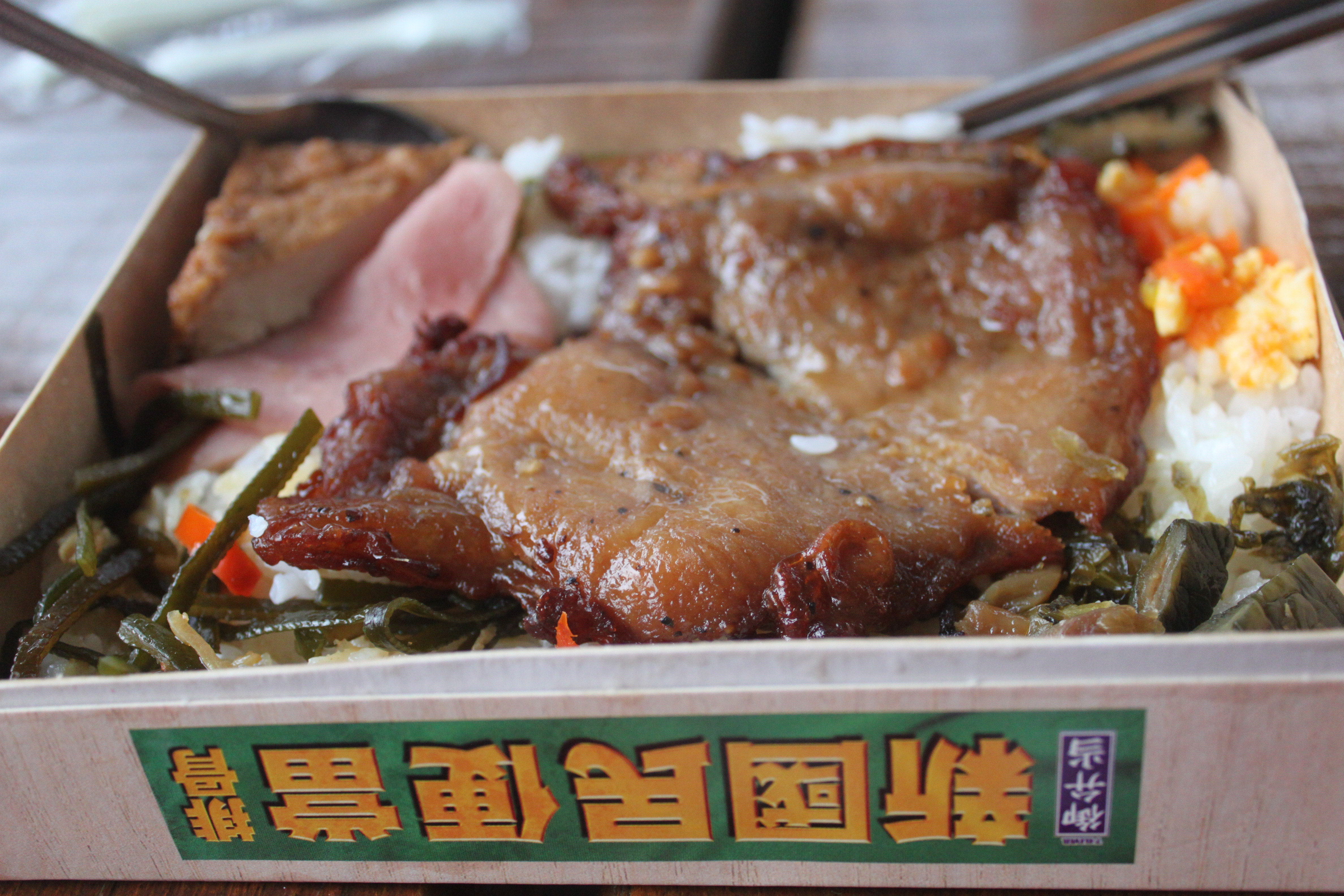 Pork-chop Bento bought from 7-Eleven store in Sun Moon Lake National Scenic Area.